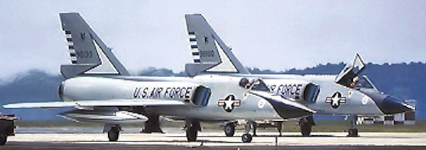 2 48th FIS F-106s on the alert pad, 1981